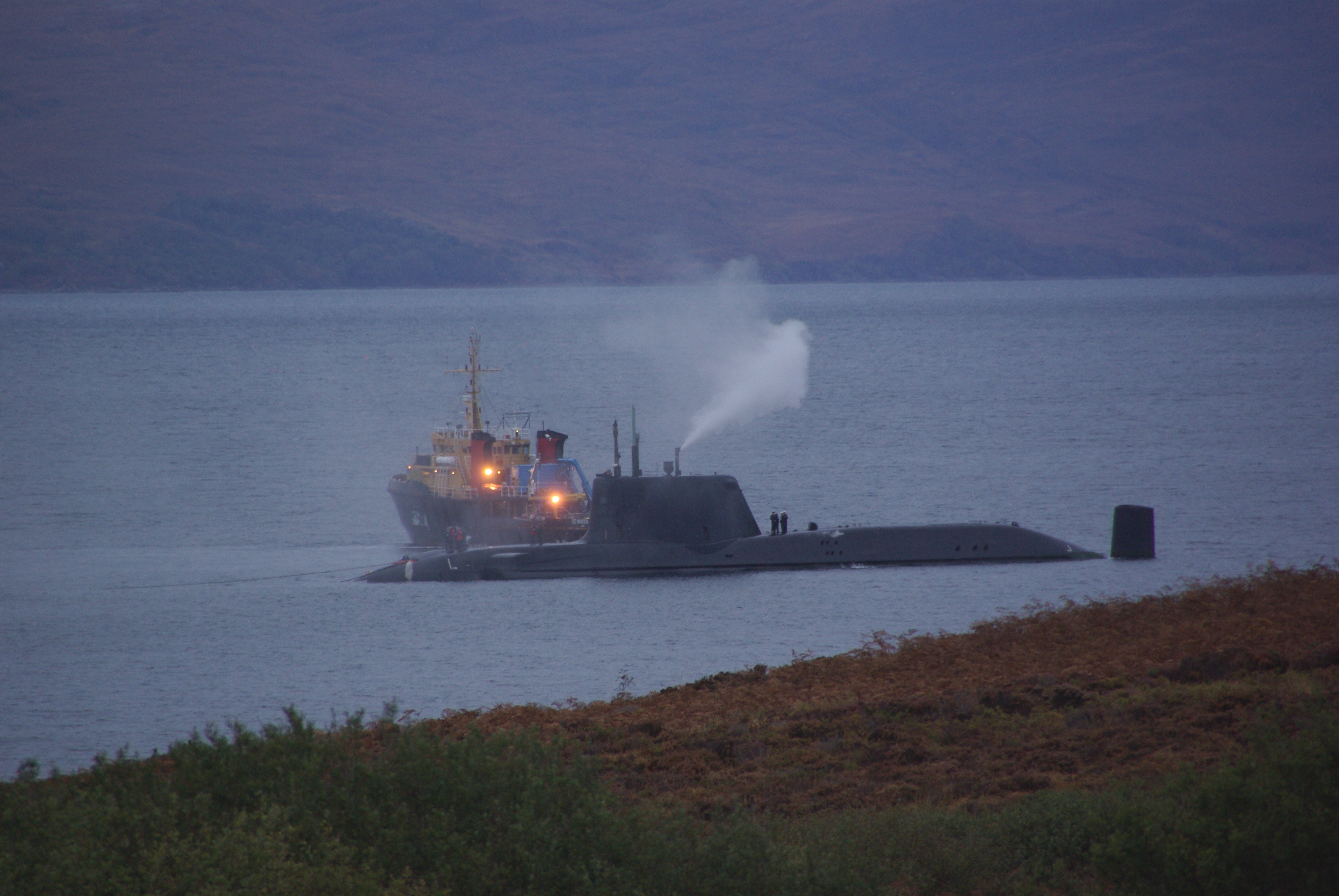 HSM Astute grounded off the Isle of Skye